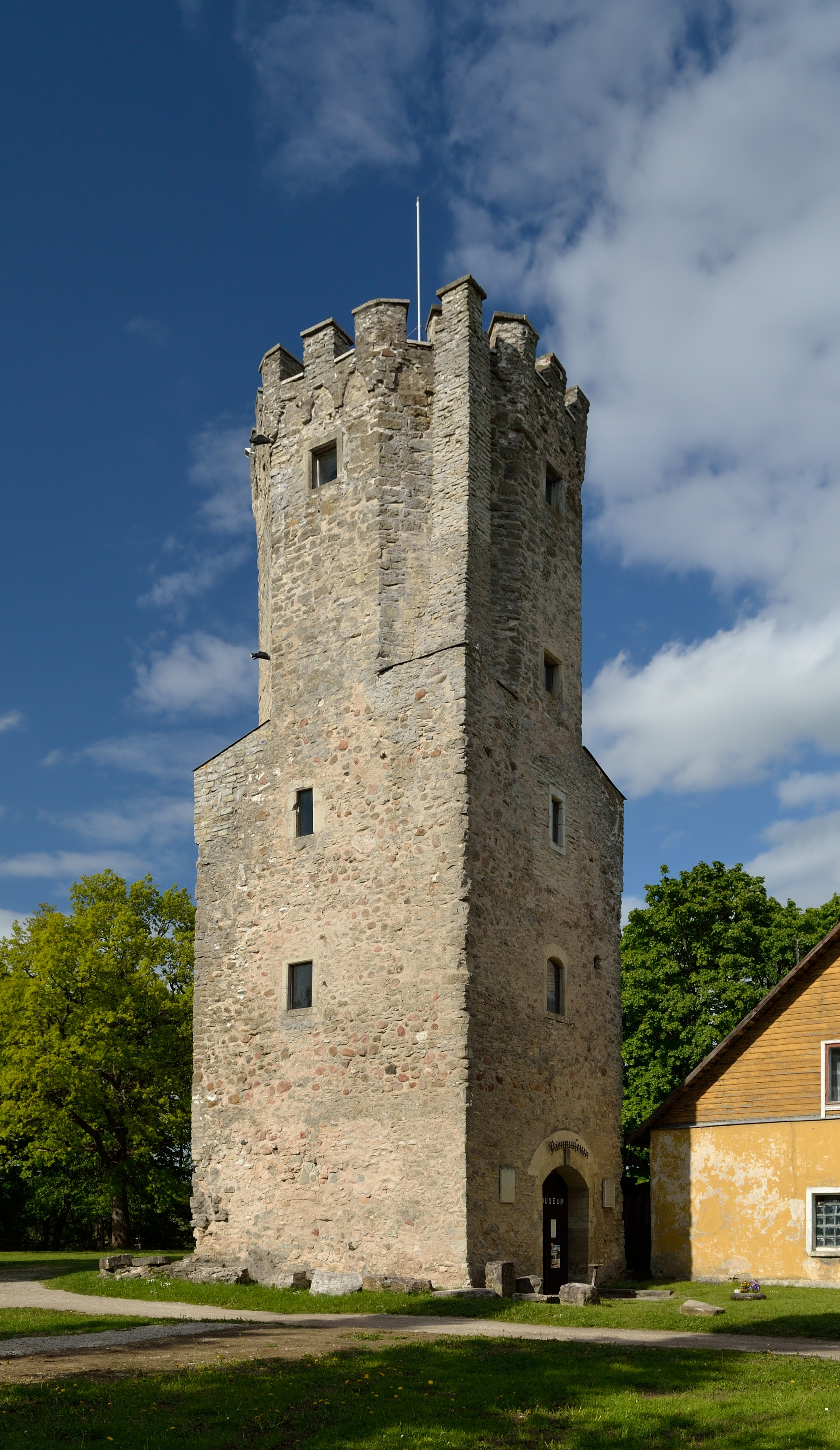 Porkuni castle gatetower, built in 1523–1524